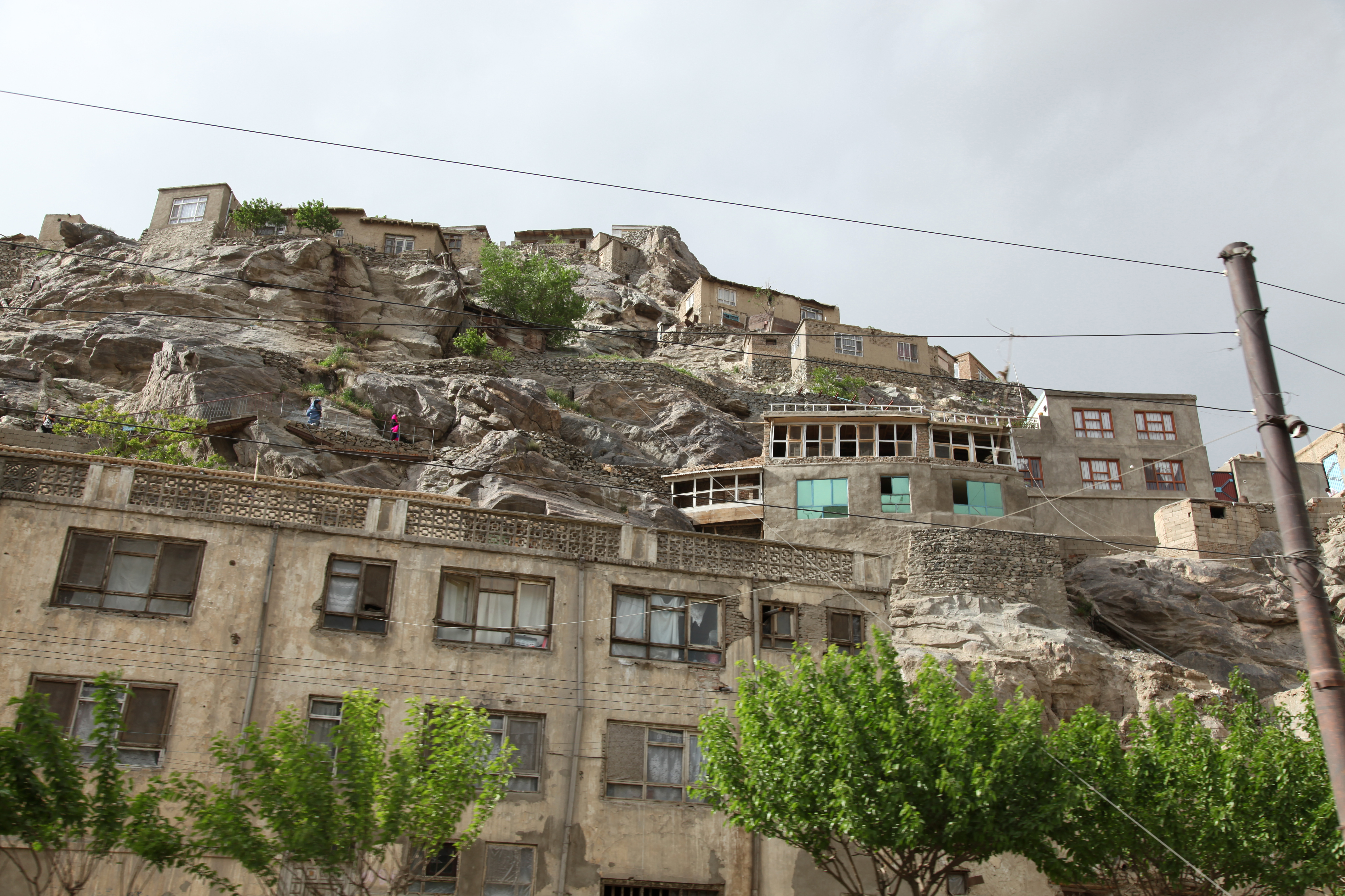 Kabul